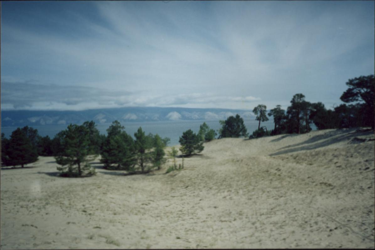 Landscape of Olkhon Island